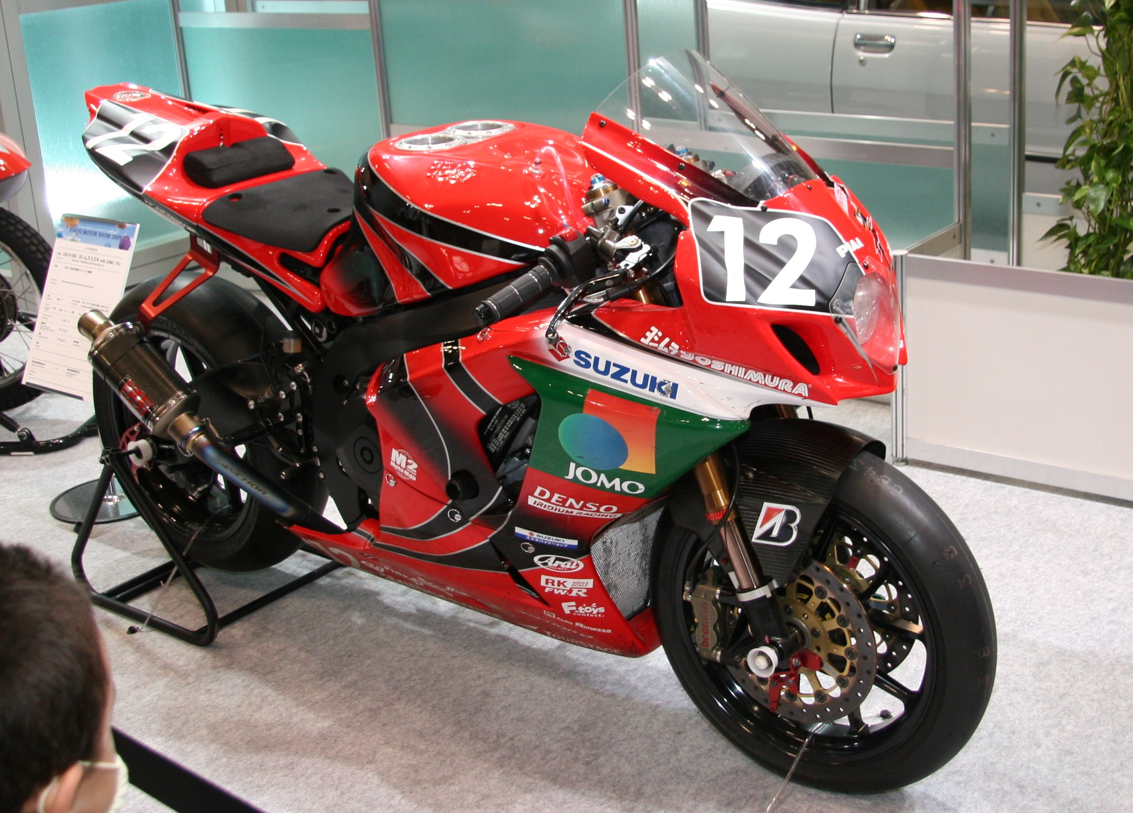 Suzuki GSX-R1000